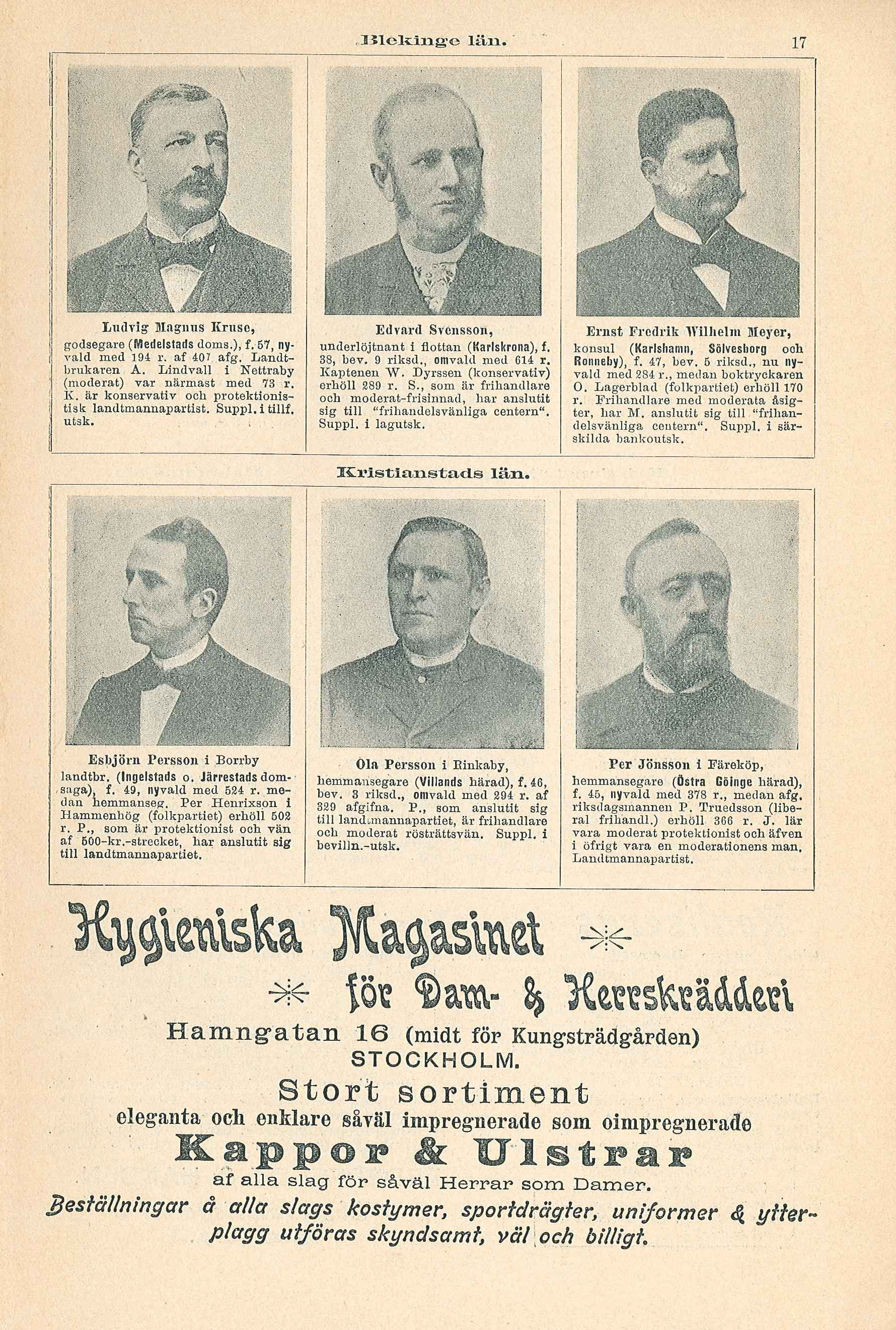 Page 17 of an album featuring portraits of all the members of the second chamber of the Swedish parliament (Sveriges riksdag) elected in 1897. This page featuring parts of the members representing the counties of Blekinge and Kristianstad.